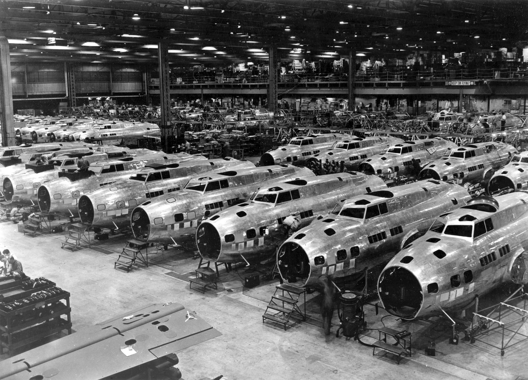 Boeing B-17Es under construction. This is the first released wartime production photograph of Flying Fortress heavy bombers at one of the Boeing plants, at Seattle, Wash. Boeing exceeded its accelerated delivery schedules by 70 percent for the month of December 1942.